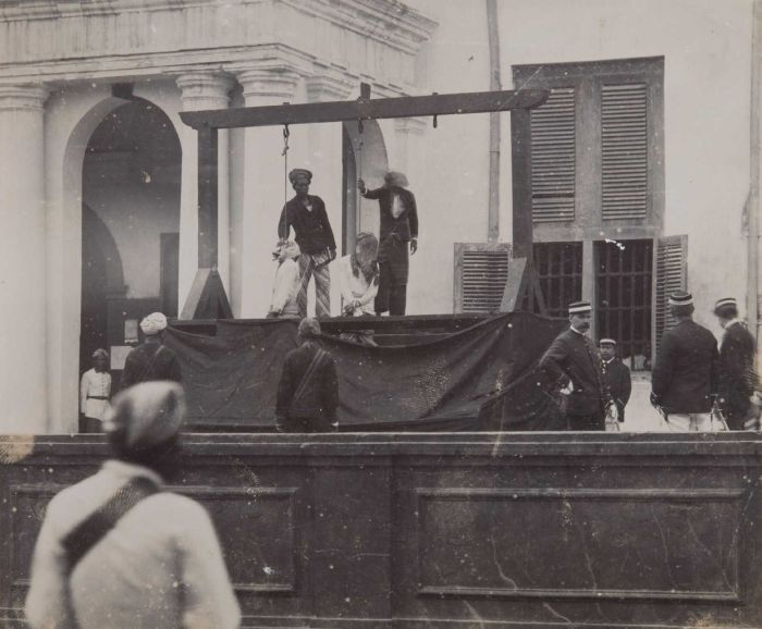 The hanging of two men in front of Batavia's town hall